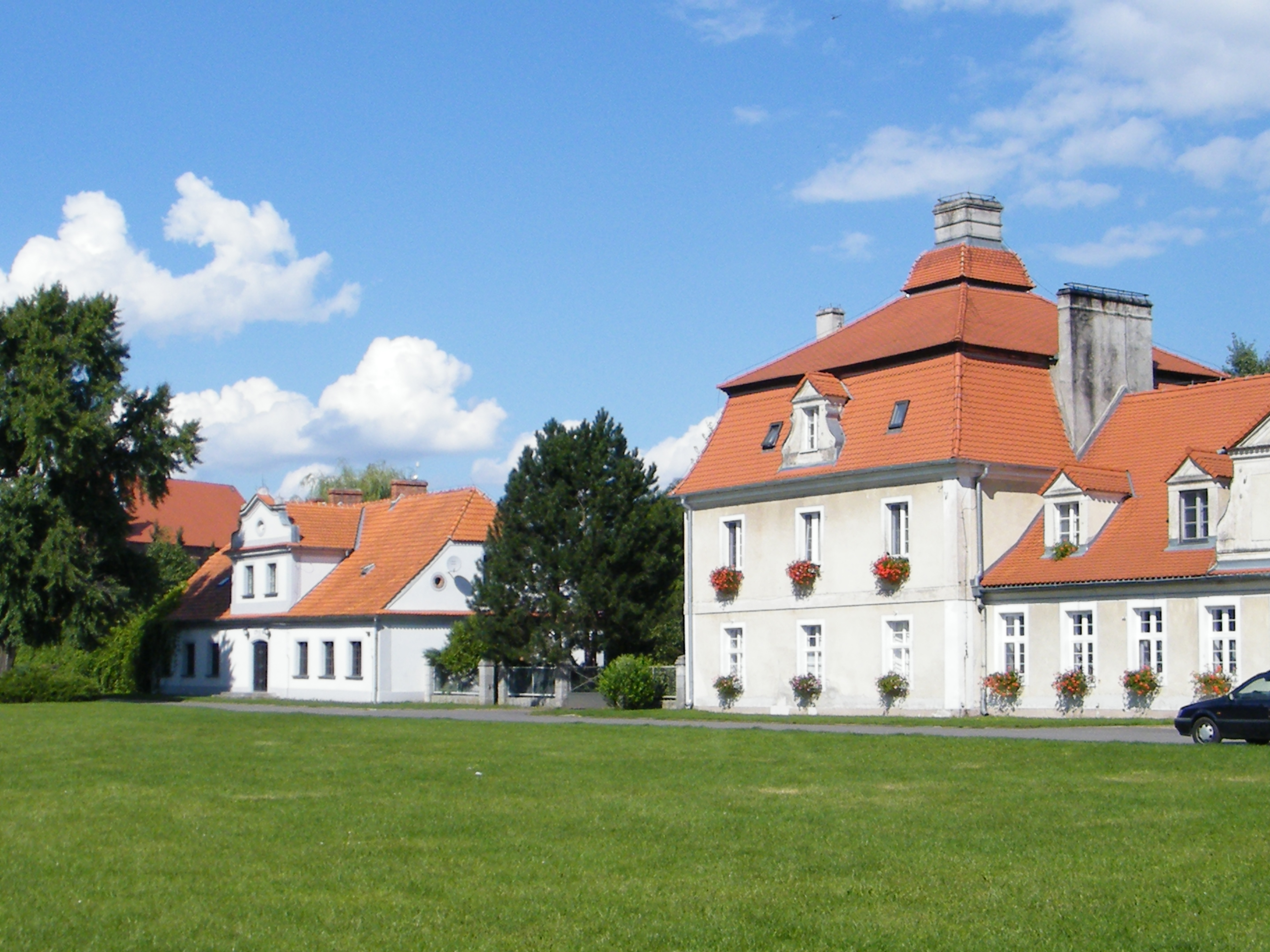 Builidngs near the castle in Kórnik